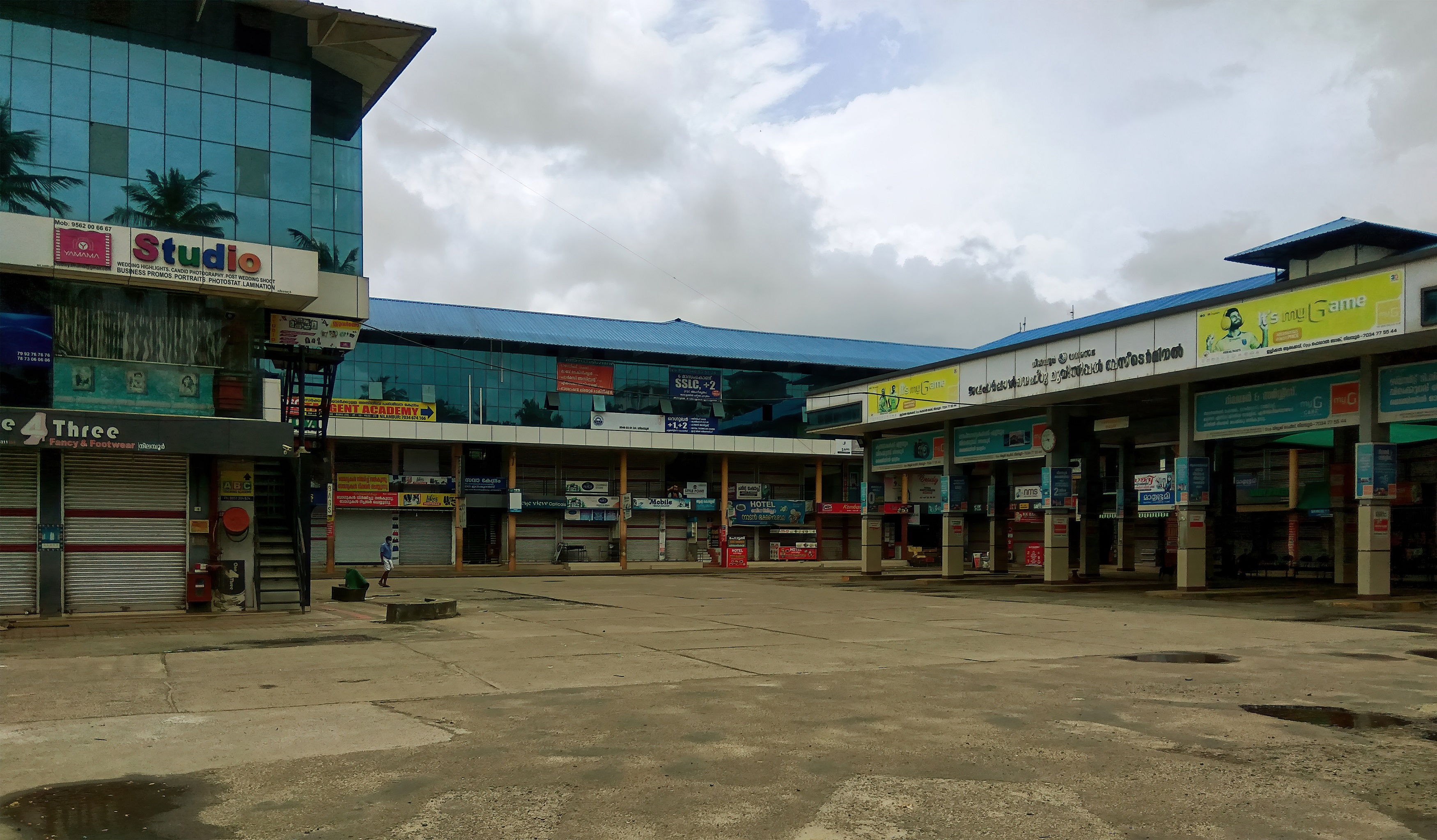 A view of Jawaharlal Nehru Municipal Bus Terminal in Nilambur, Kerala mostly deserted due to COVID-19 lockdown and restrictions.